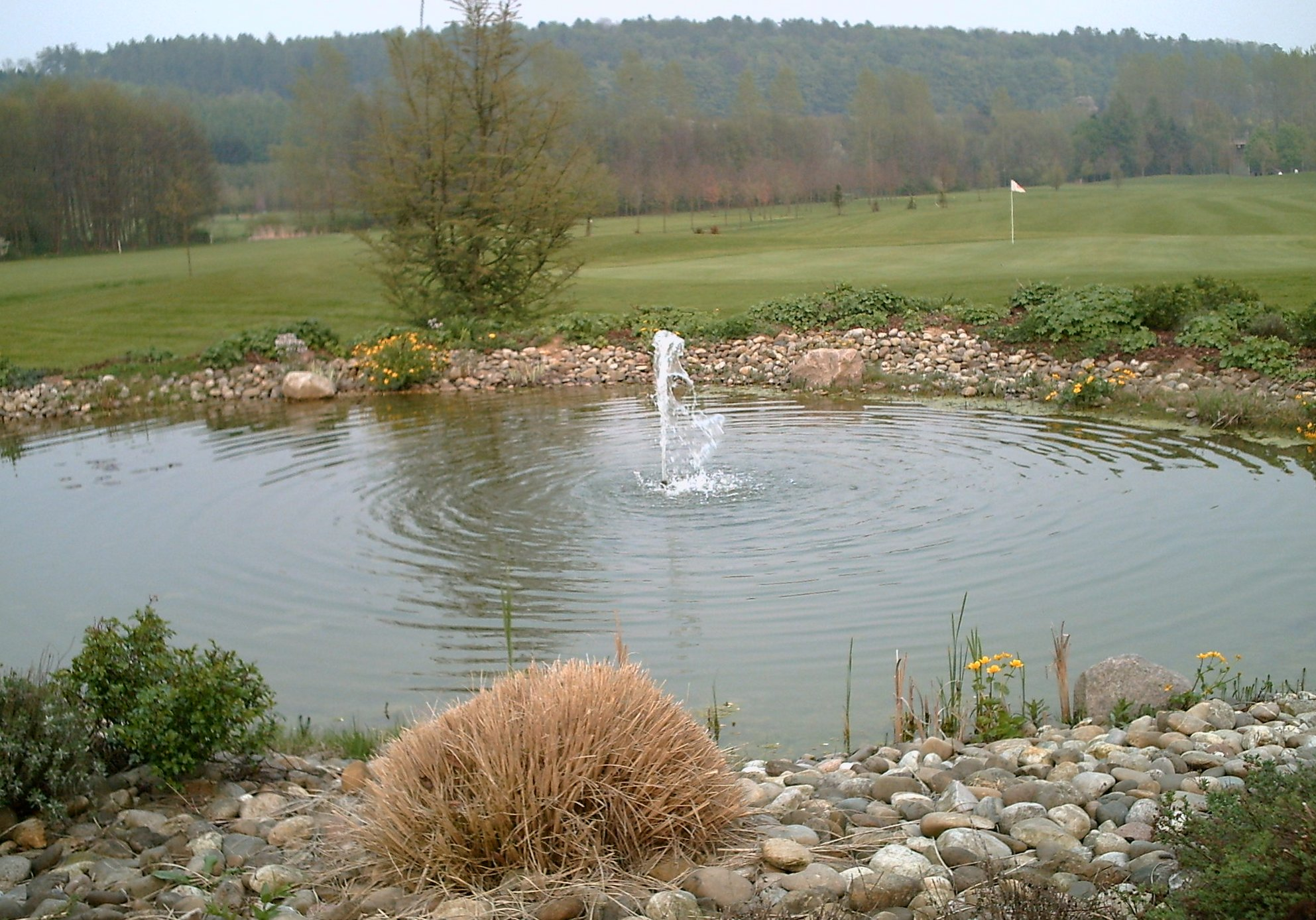 View from the terrace of the golfclub in Bad Driburg, Germany